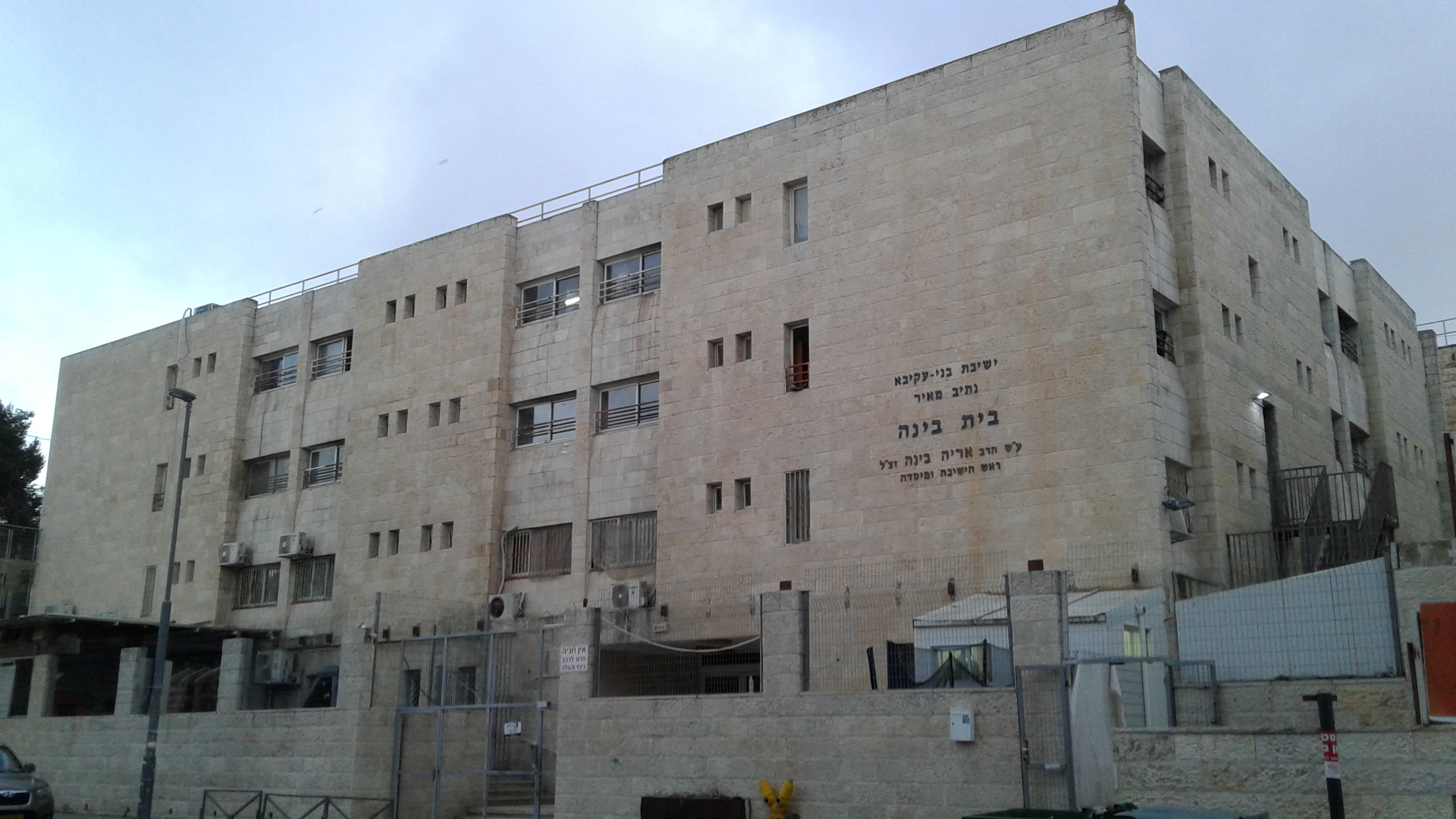 Ha-Khida St 23, Jerusalem, Israël